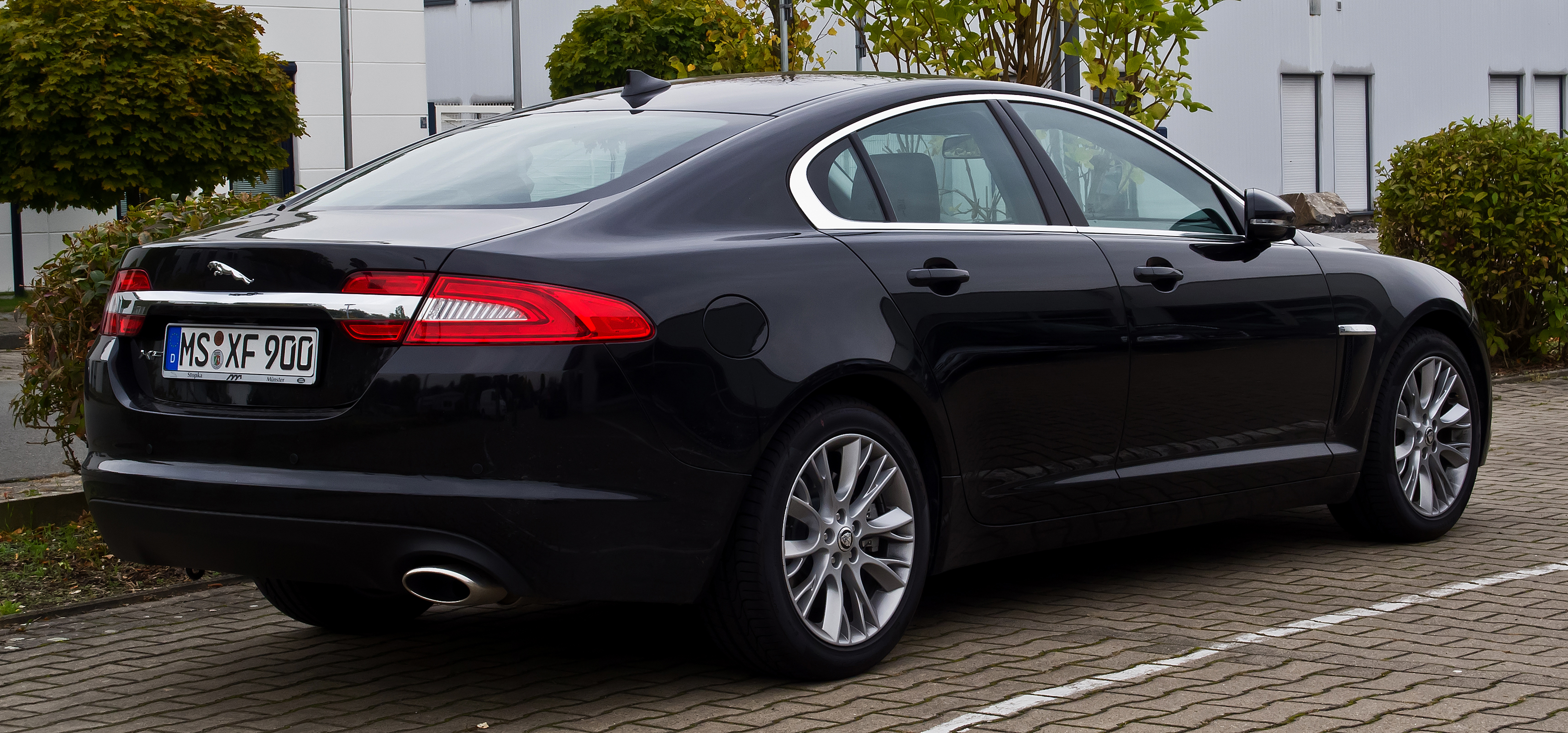 Jaguar XF 2.2 D (Facelift)